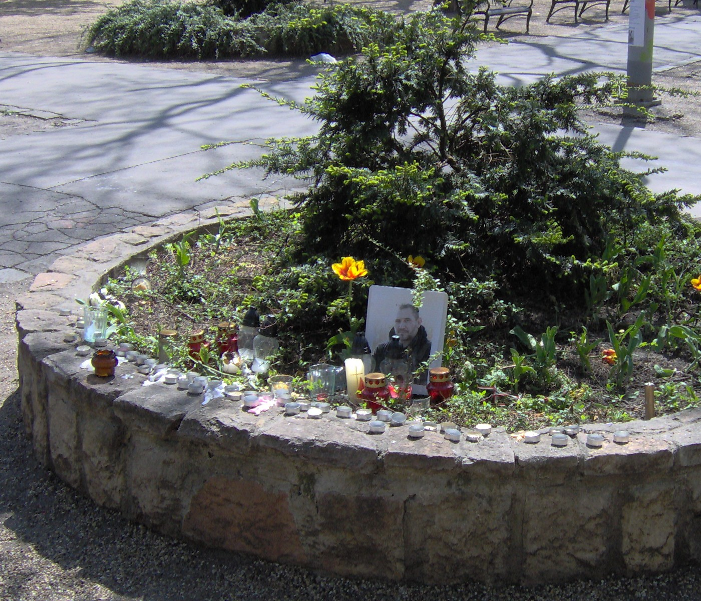 Hunyadi square in Budapest, Hungary after the death of Eduardo Rózsa-Flores in Bolivia